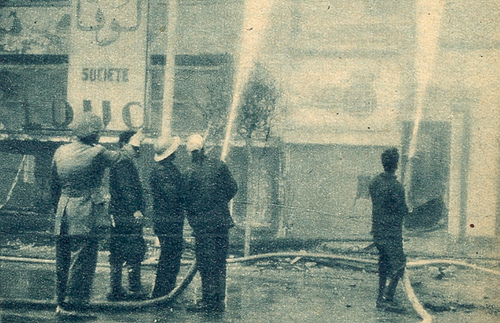 حريق القاهرة